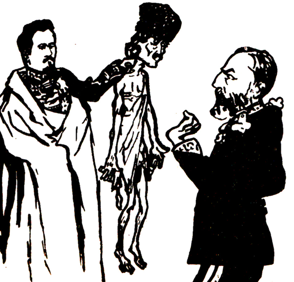 Anti-monarchy cartoon in the political newspaper Protestarea. Alexander John Cuza, the deposed Domnitor of Romania, addresses his successor, King Carol I: Pe ţăranul ăsta nu-l pui la Expoziţie? ("Why not put this peasant too in your Expo?"). The allusion is to the 1906 exhibit marking Carol's jubilee. The drawing precedes by approx. one year the large-scale Romanian peasants' revolt.